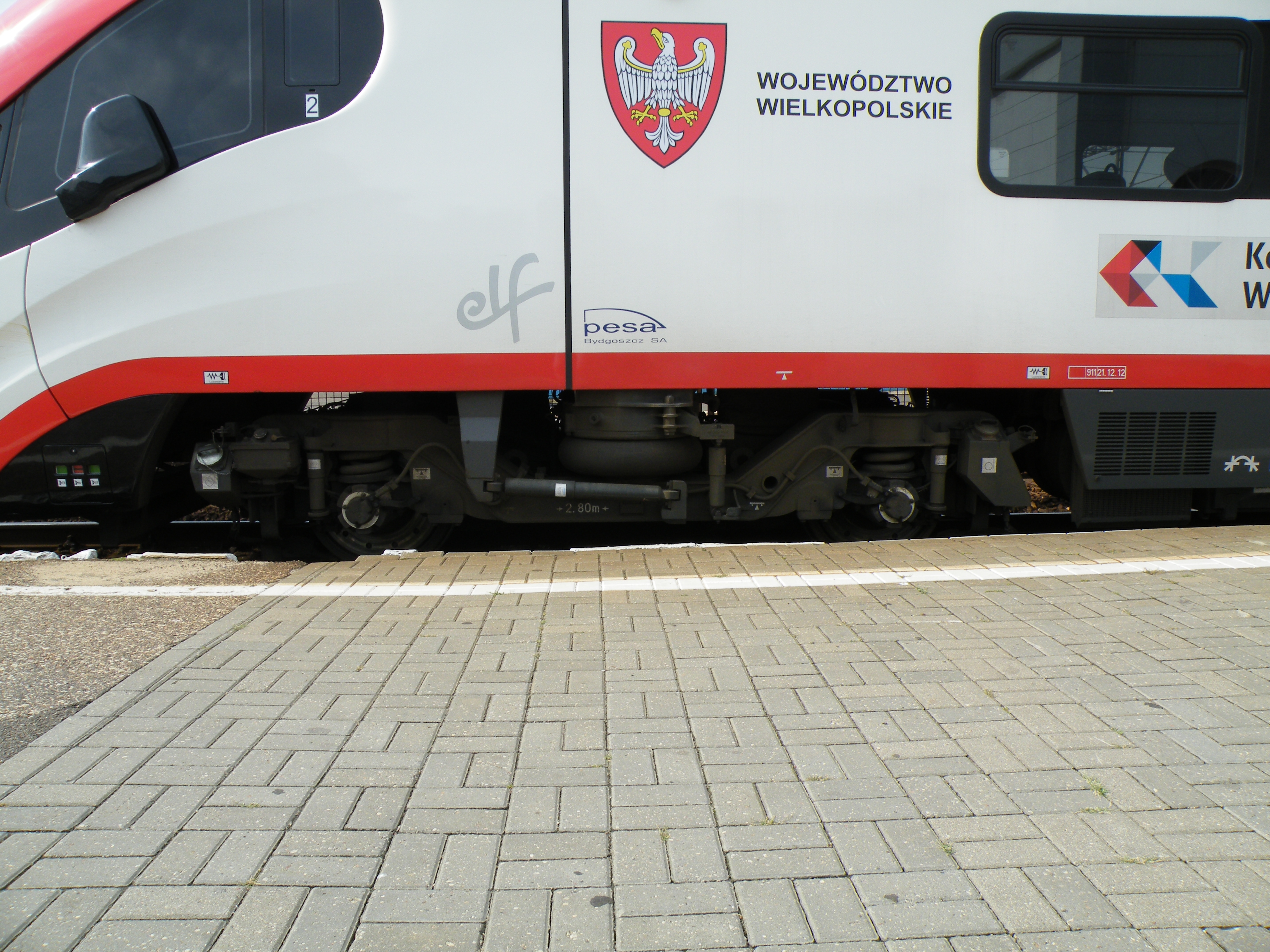 Bogie in PESA ELF EMU